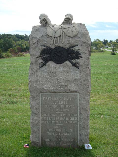 12th Illinois Cavalry Regiment, North Reynolds Avenue, Gettysburg Battlefield.